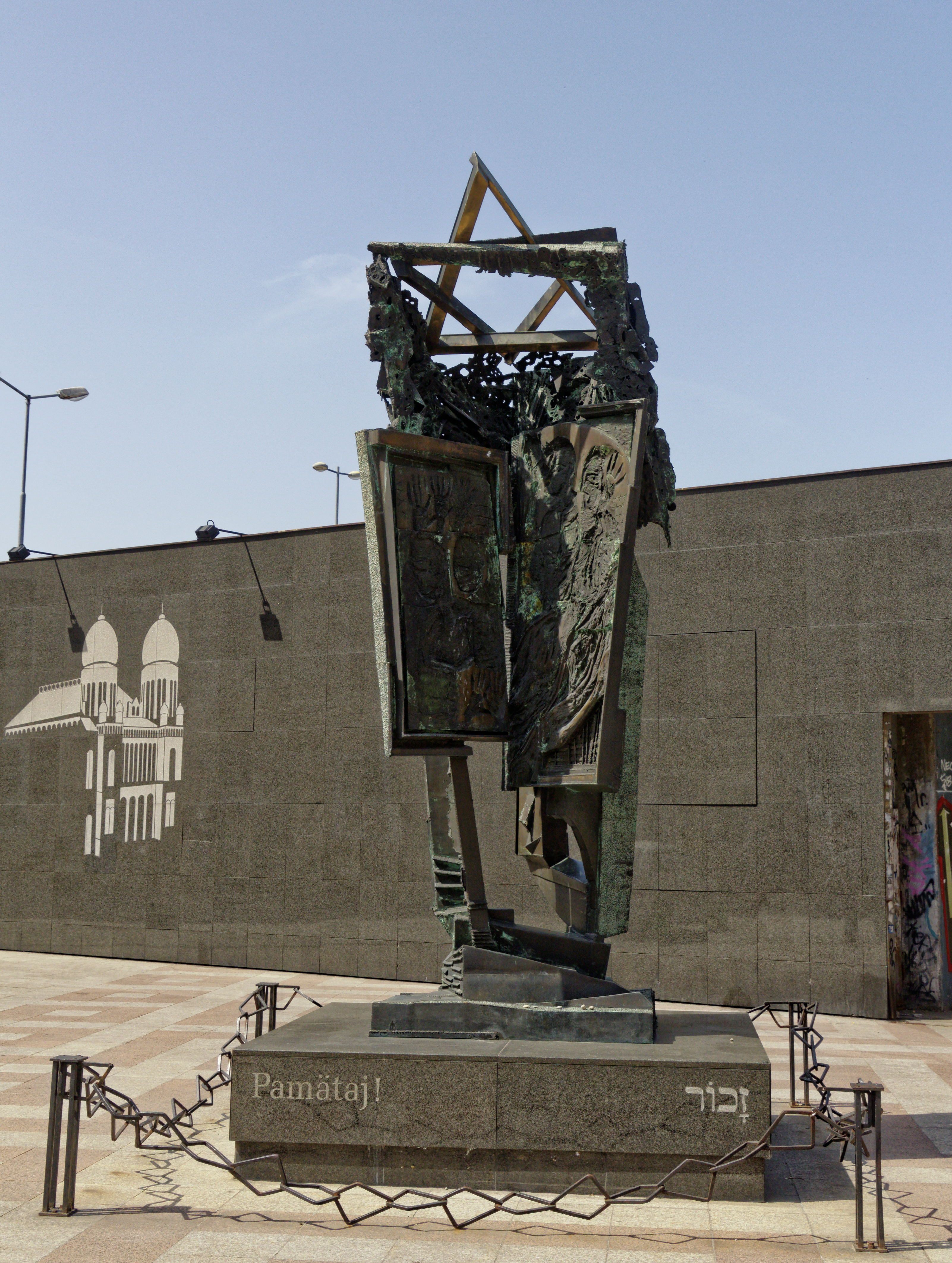 Holocaust Memorial at Rybné námestie in Bratislava, sculpture by Milan Lukáč.